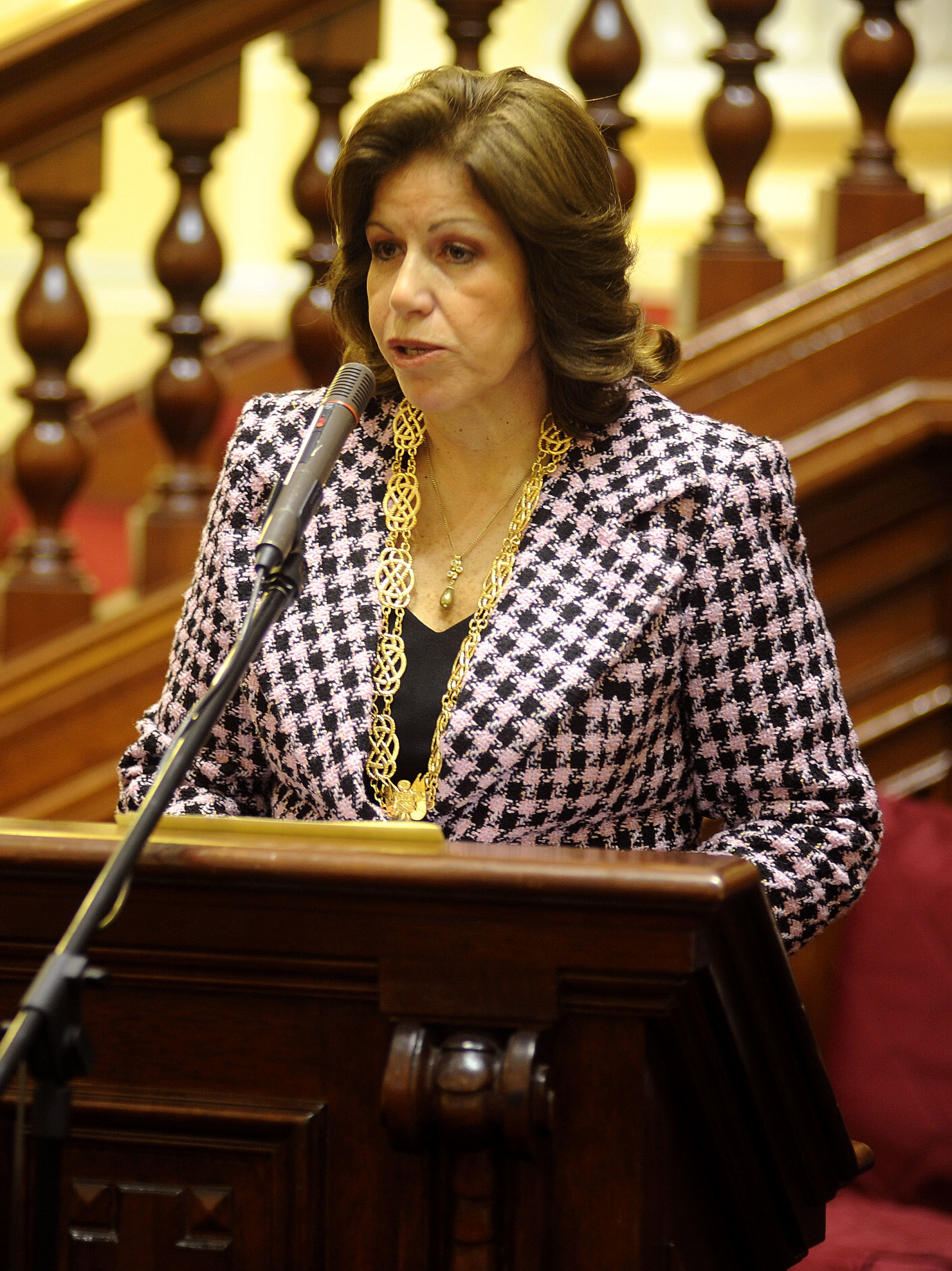 El presidente del Parlamento, César Zumaeta Flores, impone a Lourdes Flores Nano la Medalla de Honor del Congreso en el grado de Gran Cruz, en mérito a su labor y aporte al país a través de sus actividades políticas, parlamentaria y profesional de las leyes. Fue en acto efectuado este mediodía en la sala Raúl Porras Barrenechea del Palacio Legislativo.